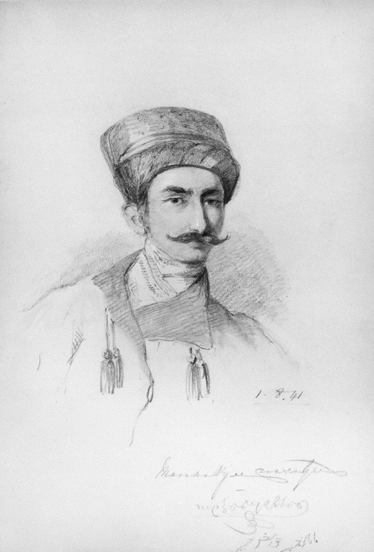 Drawing of Manockjee Cursetjee (1808-1887), Parsi merchant and reformer from Mumbai.